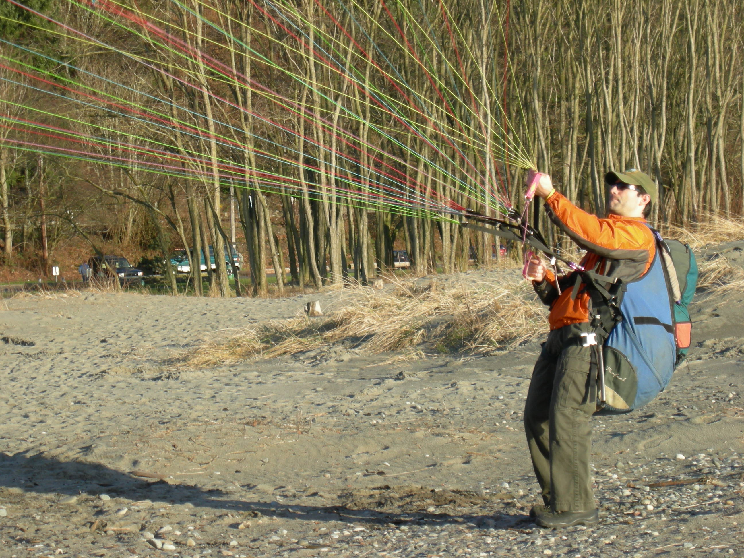 A paraglider pilot practices his technique, utilizing the winter winds in the dunes near the shore of Golden Gardens Park, Ballard, Seattle, Washington. This closeup gives a good view of the colored cords, but does not include the sail/canopy itself.